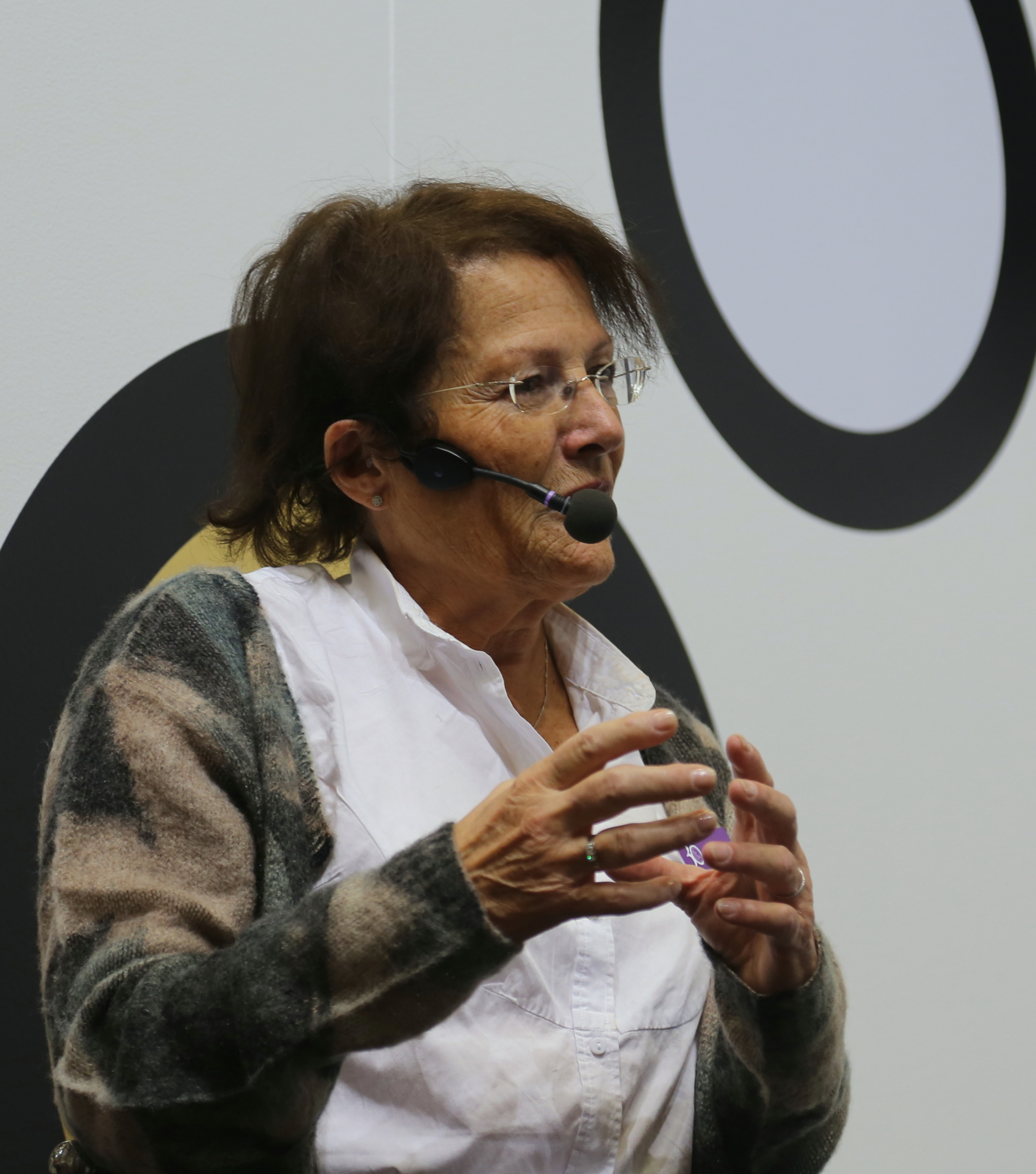 Sigrid Combüchen at the Gothenburg book fair 2014.